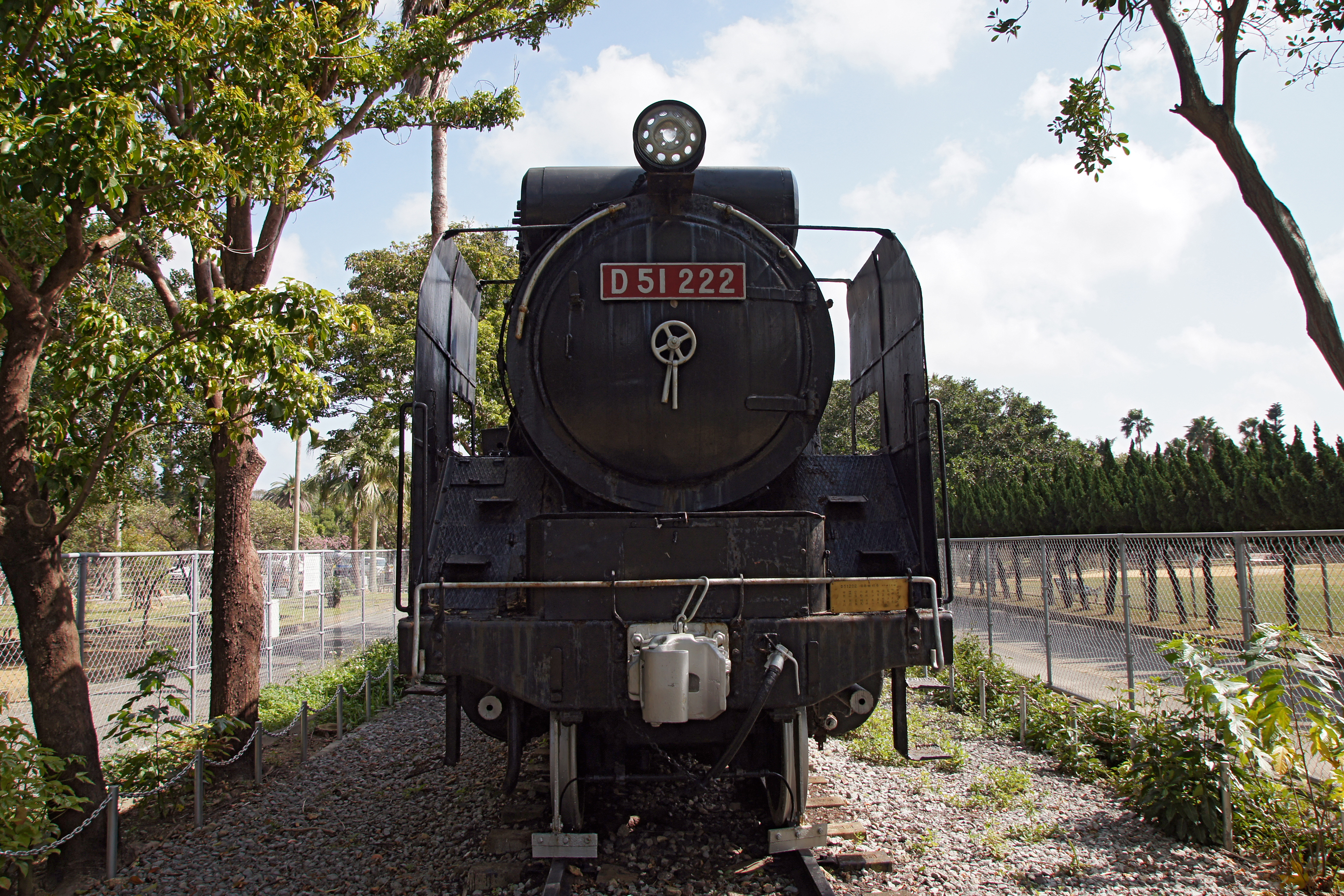 Yogi Park, Naha, Okinawa prefecture, Japan